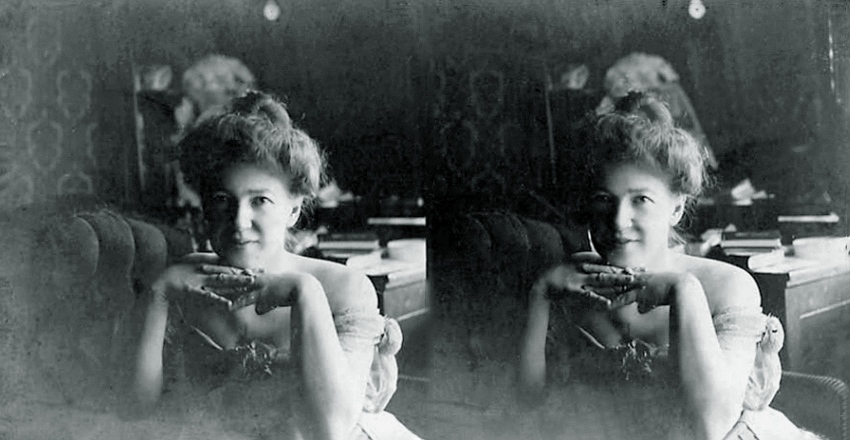 Stereo card of the poet Ella Wheeler Wilcox